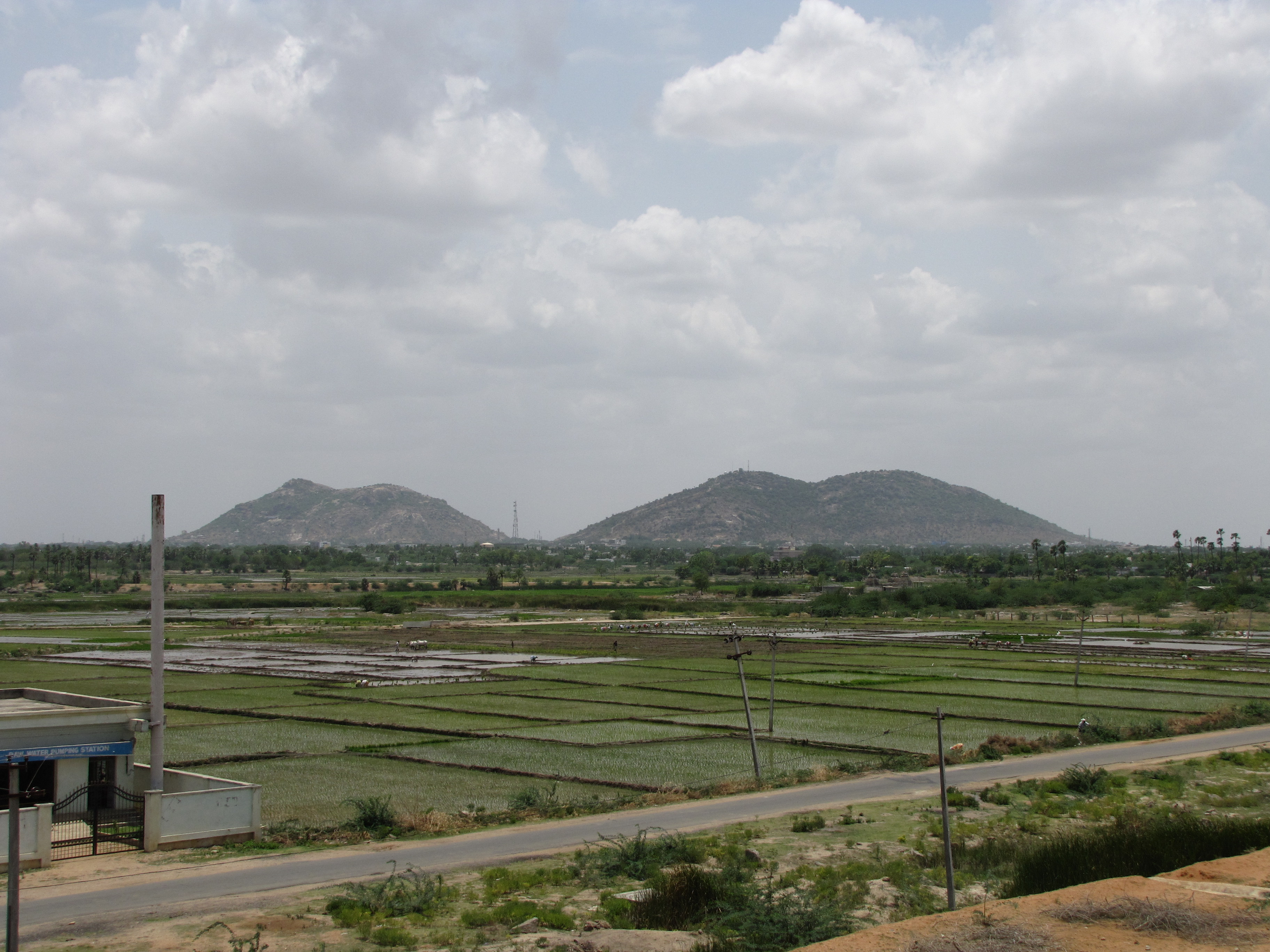 View of Nalgolnda hills from panagal tank.